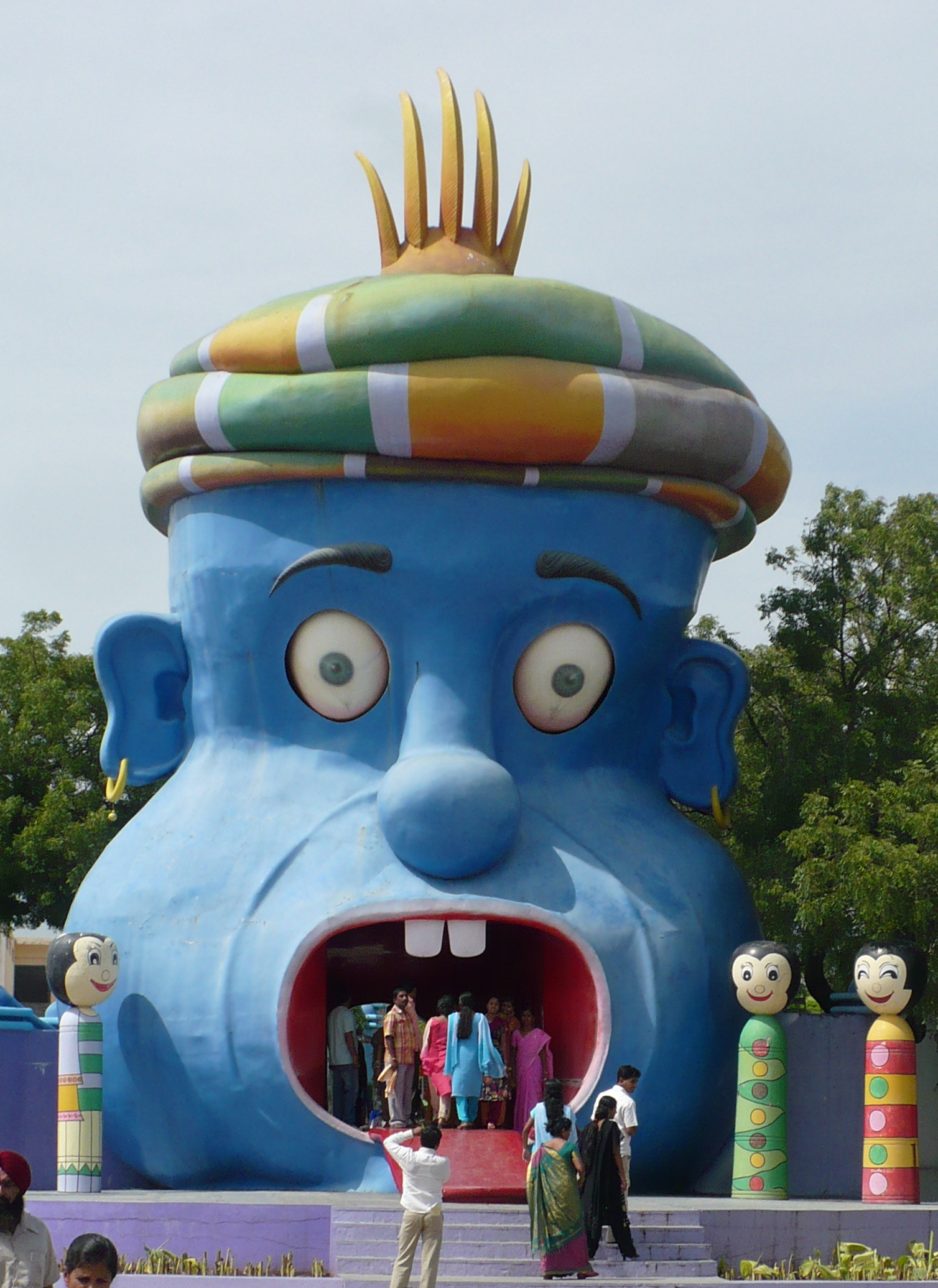 By Nikhil Kulkarni